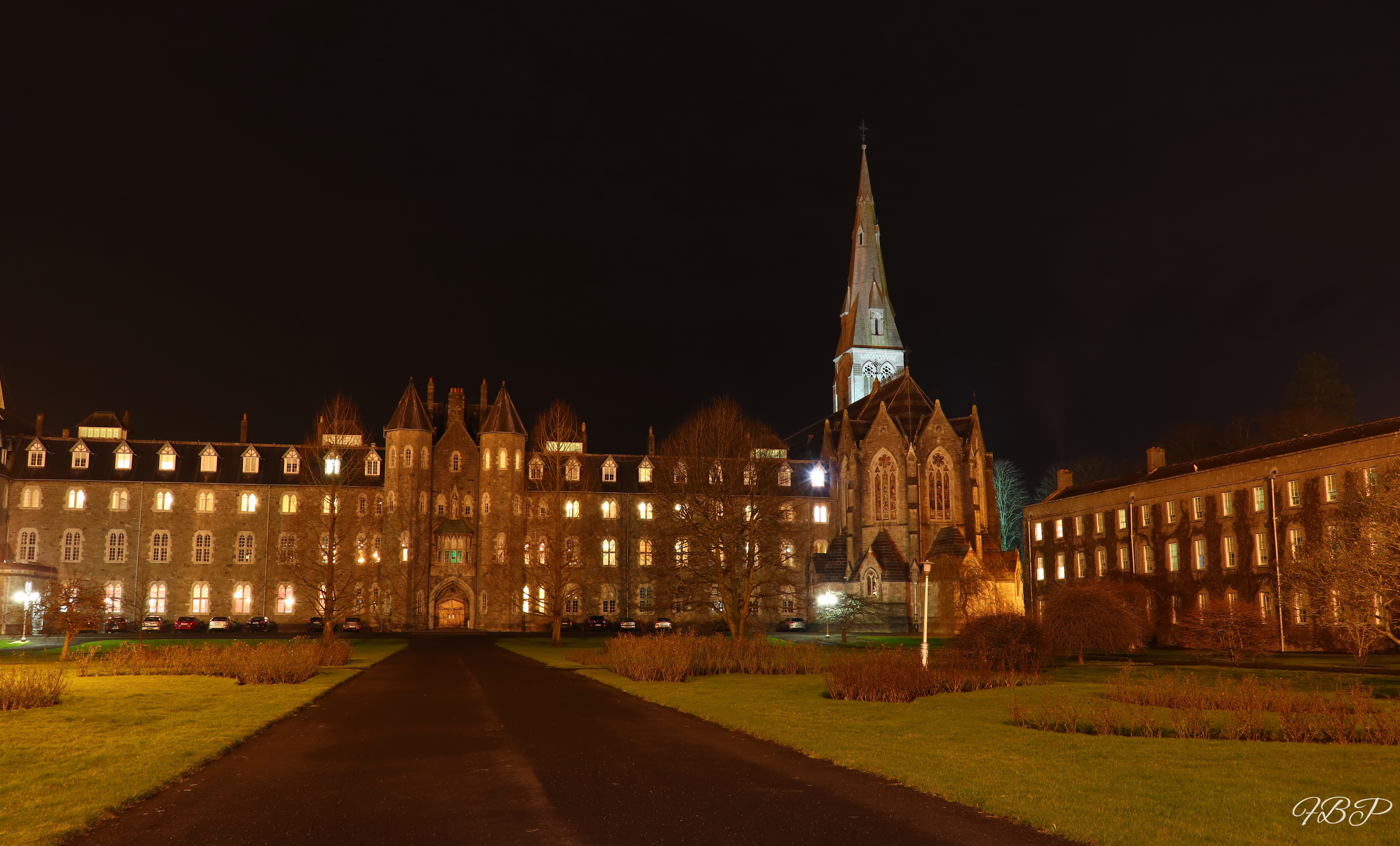 Maynooth, St Patrick's College. Wikidata has entry Q4556206 with data related to this item.